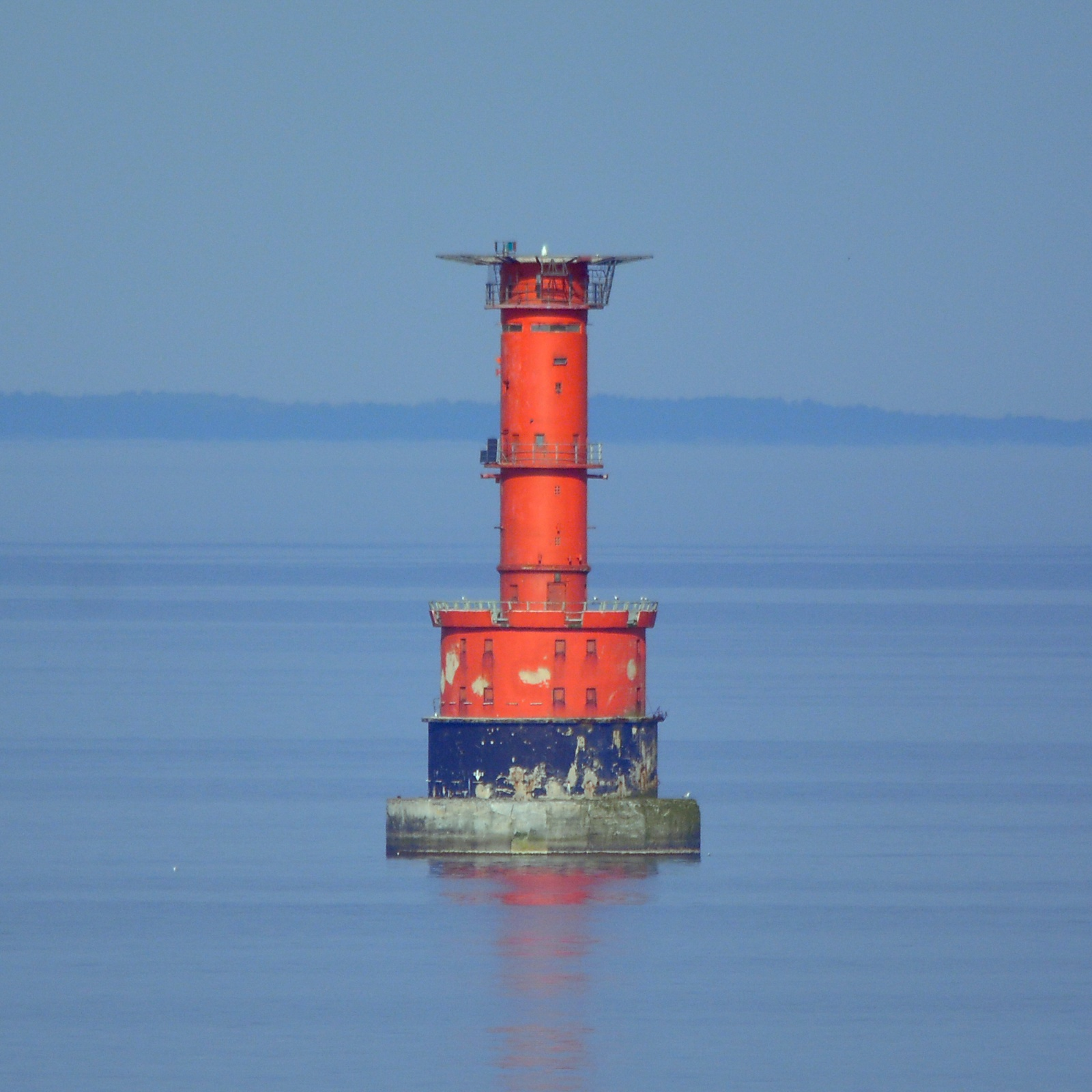 The lighthouse Grundkallen in South Kvarken.